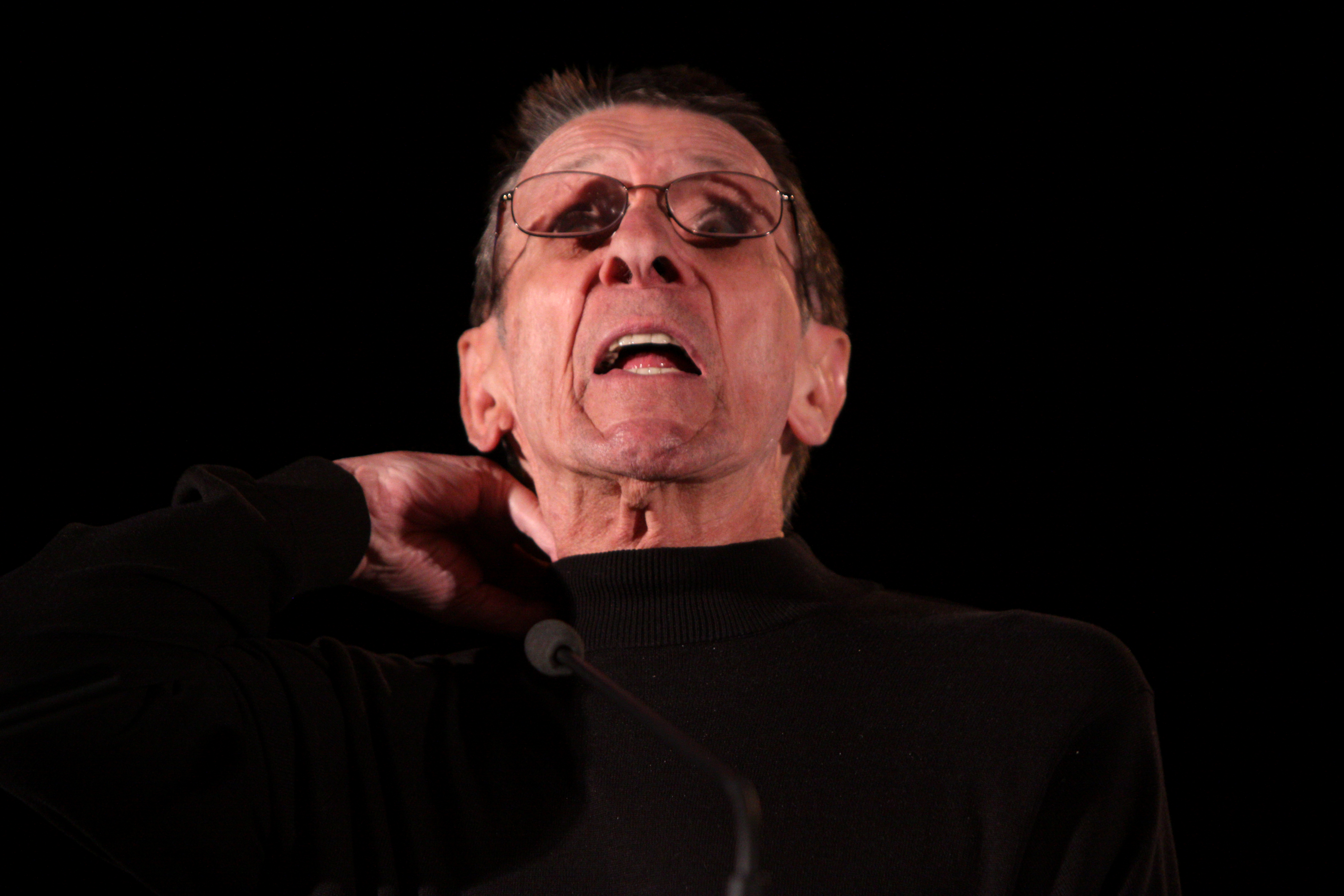 Leonard Nimoy at the 2011 Phoenix Comicon in Phoenix, Arizona, demonstrating the Vulcan nerve pinch.